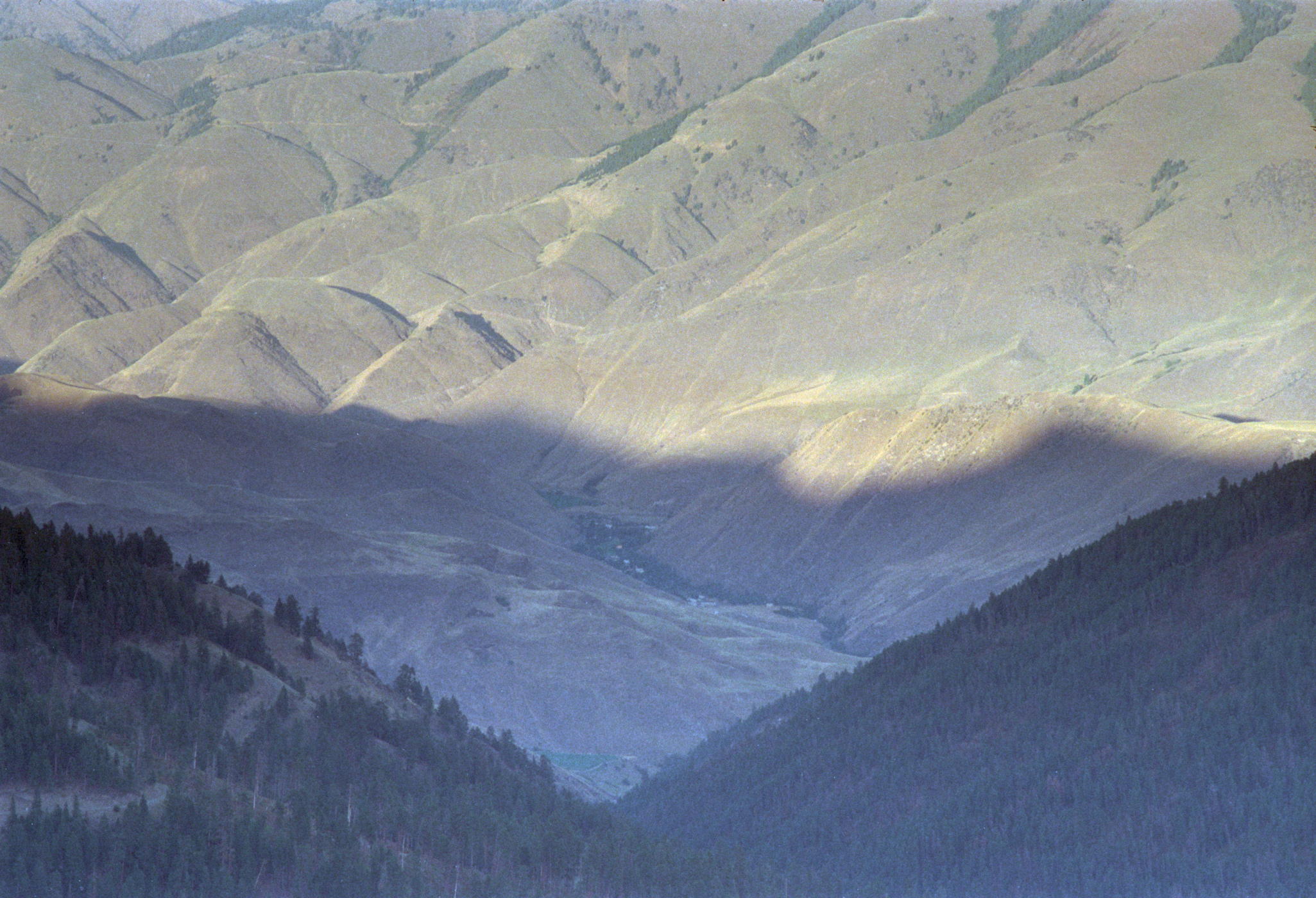 Riggins, Idaho